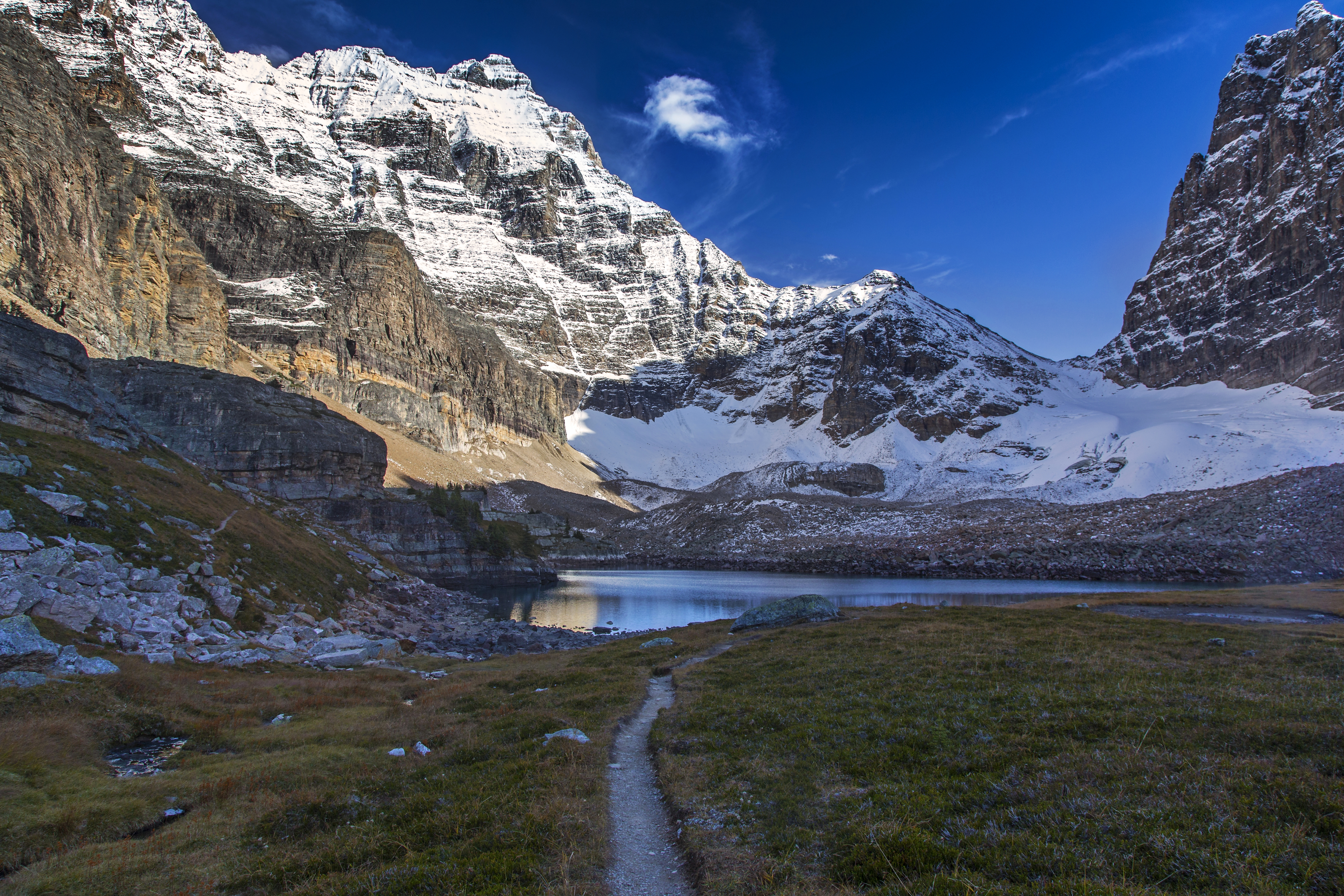 Lovely Tarn at end of Hiking Trail in Opabin Plateau above Lake O'Hara Yoho National Park British Columbia This photo was taken in a protected area in Canada, Wikidata item Lake O'Hara (Q1801034)